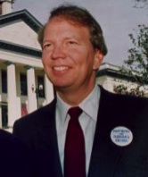 Former Speaker of the Florida House Jon Mills